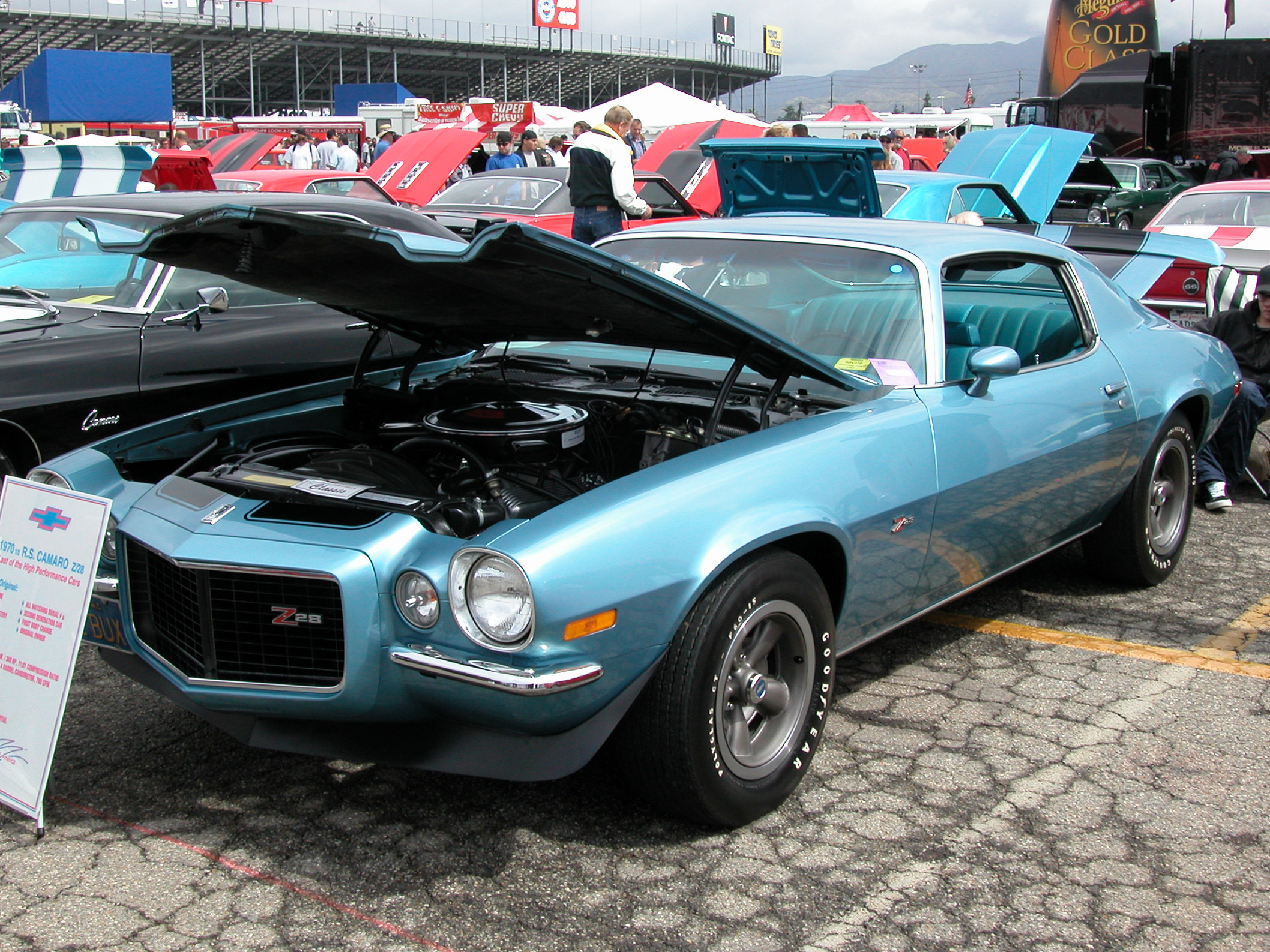 1970 Chevrolet Camaro Z28 RS in blue with black rally stripes while at the 2003 Super Chevy Show in Pomona, CA. Camera used is a Nikon Coolpix 5000.